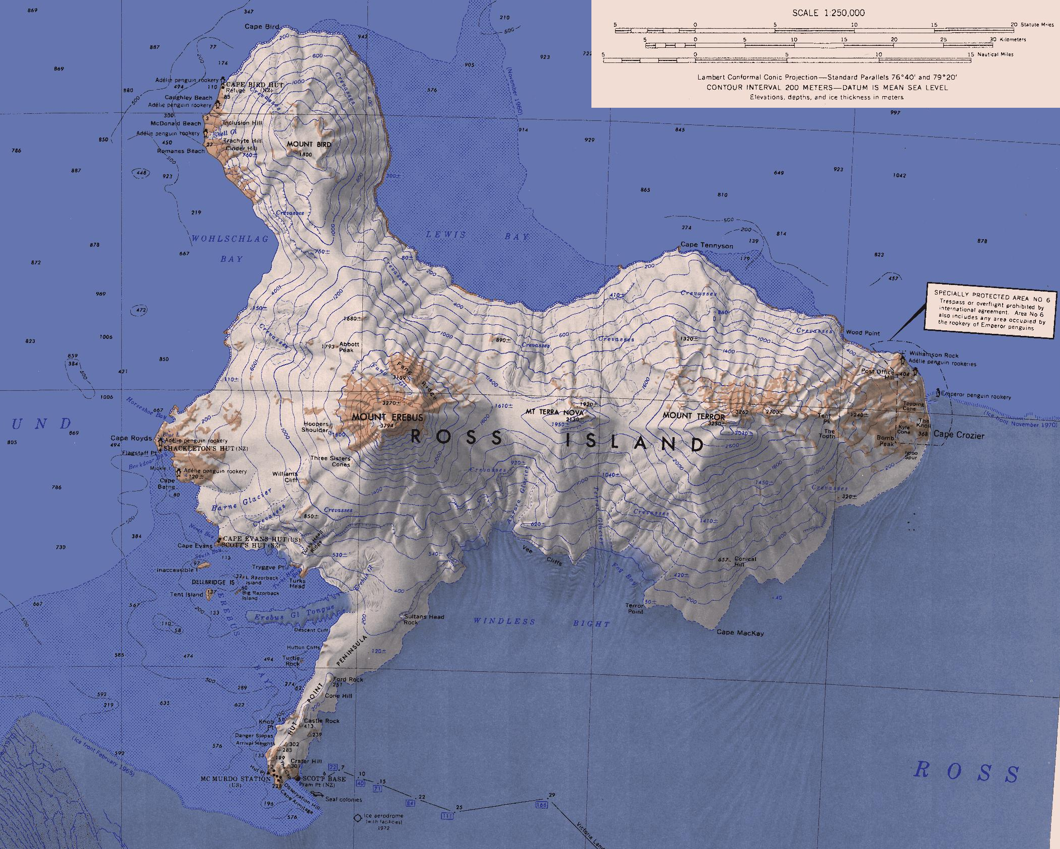 Topographic map of Ross Island, Antarctica. ST 57-60/6* (extended). Scale 1:250,000. 1972. Lambert Conformal Conic, standard parallels. Compiled in 1962 from US Navy tricamera aerial photographs taken 1956-1960. Revised from US Navy tricamera photographs taken 1967-1970.